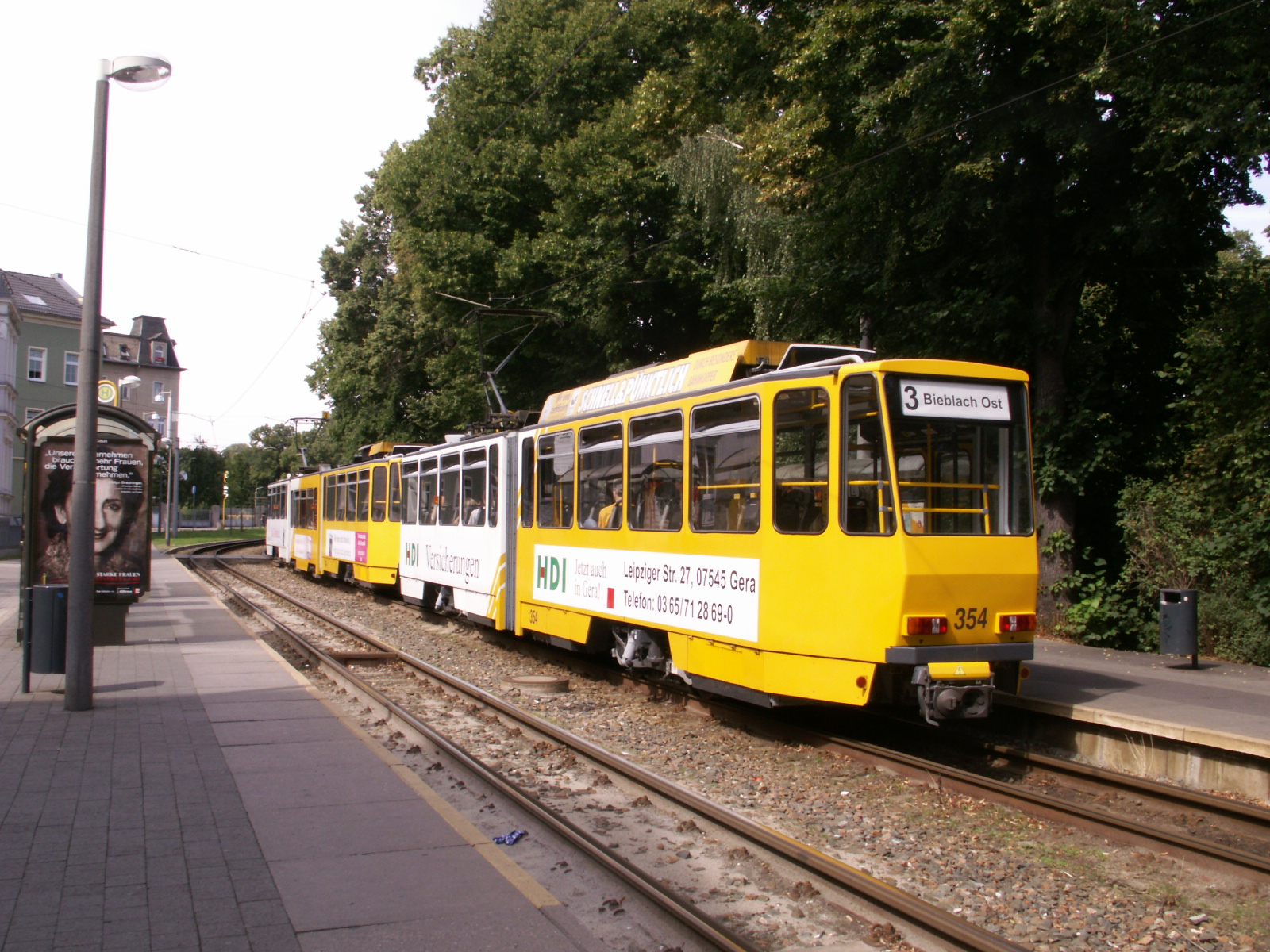 KTNF8 tram (rebuilt KT4D with central low-floor segment) coupled with KT4D at An der Spielwiese tram stop, Gera, Germany